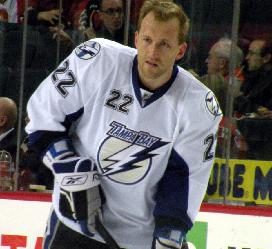 Marek Malik of the Tampa Bay Lightning warming up prior to a game against the Calgary Flames in Calgary.